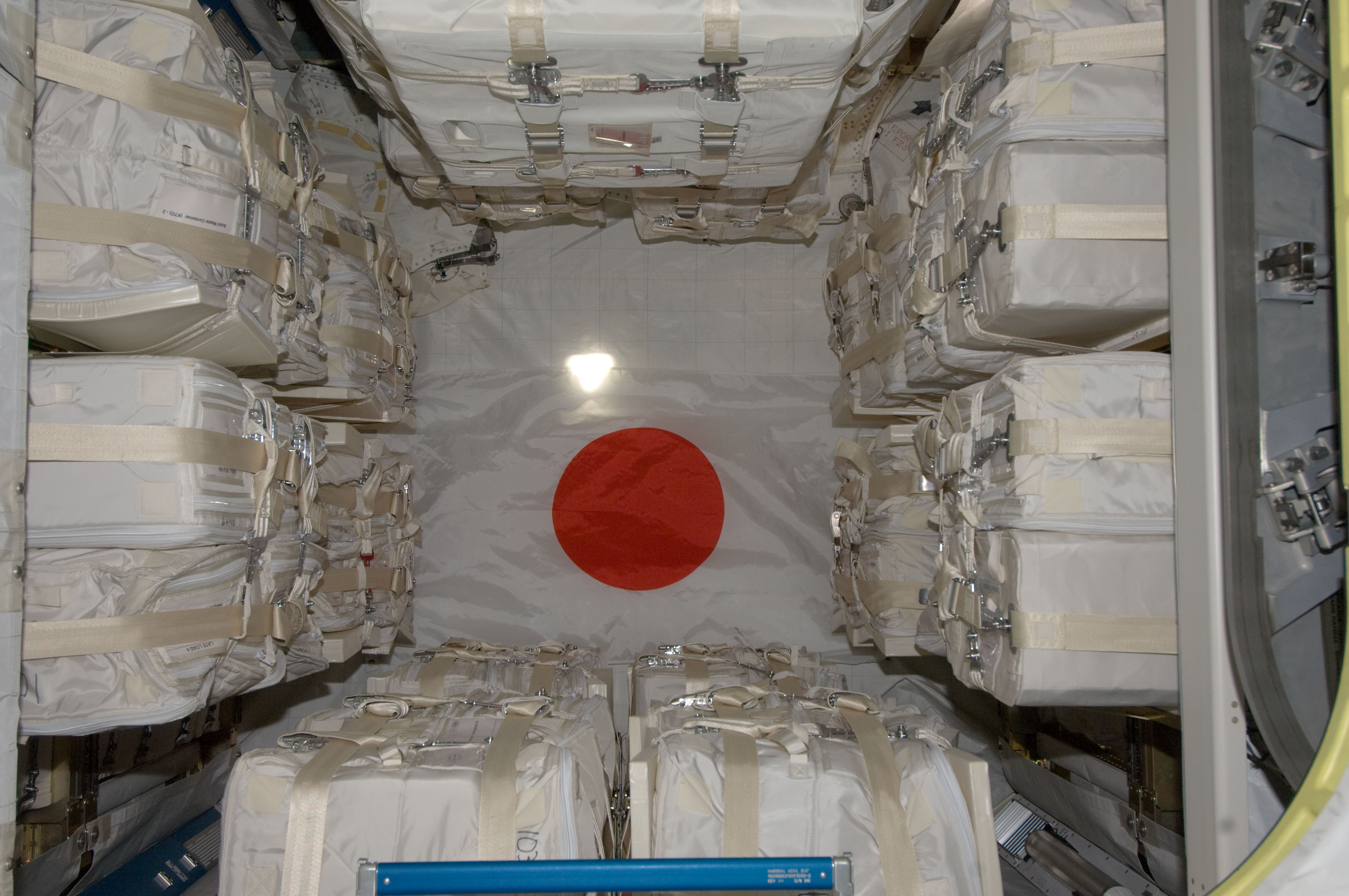 View of the interior of the newly attached Japanese H-II Transfer Vehicle (HTV) docked to the International Space Station, photographed by an Expedition 20 crew member in the Harmony node. The HTV attachment was completed at 5:26 p.m. on Sept. 17, 2009.